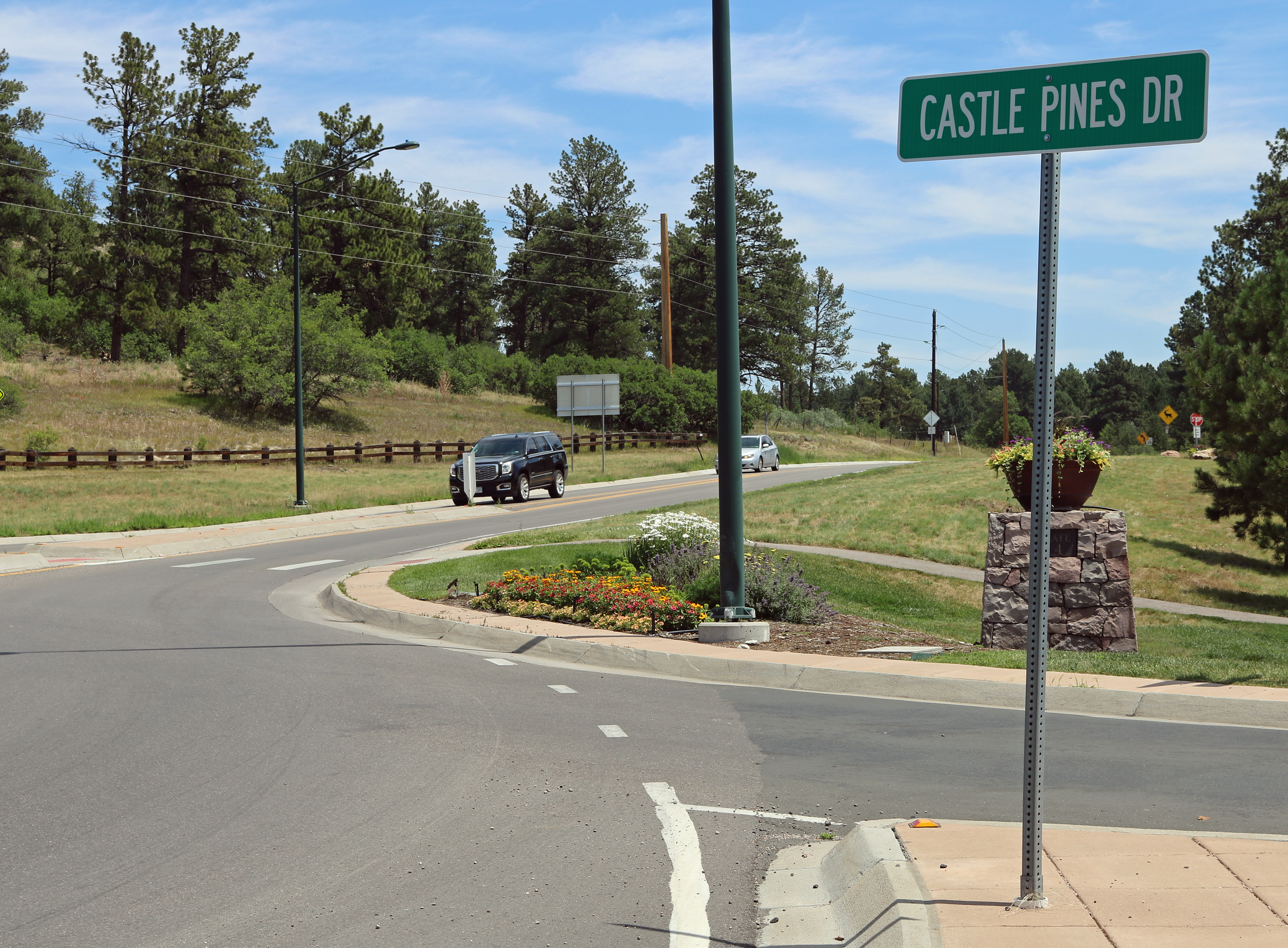 A view of Castle Pines Village, Colorado. The view shows the lower traffic circle near the shopping center on East Happy Canyon Road, where it connects with Castle Pines Drive.